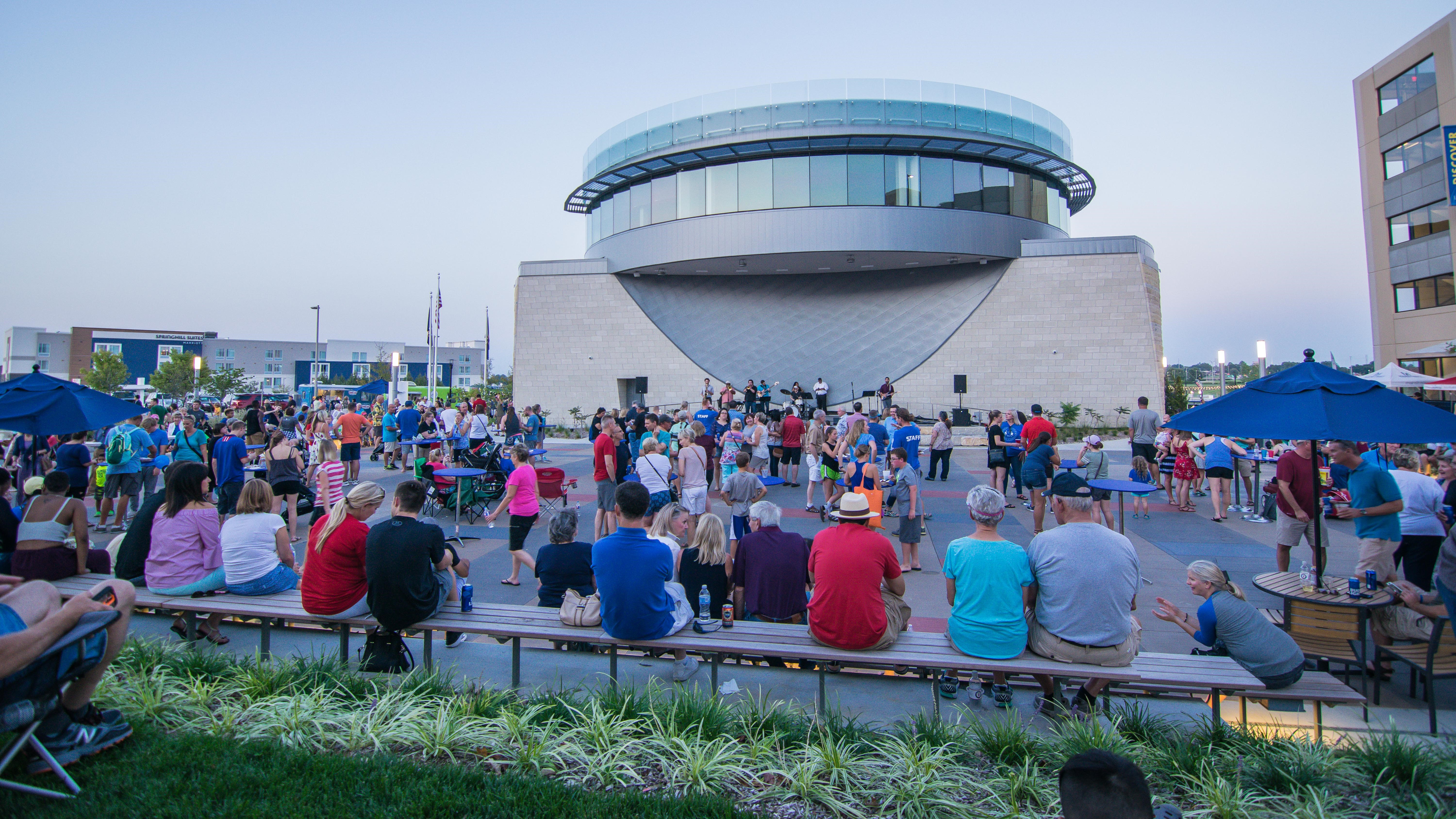 Events are commonly held at the new Lenexa civic campus